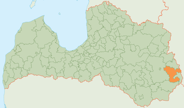 Map of Ludza municipality, Latvia